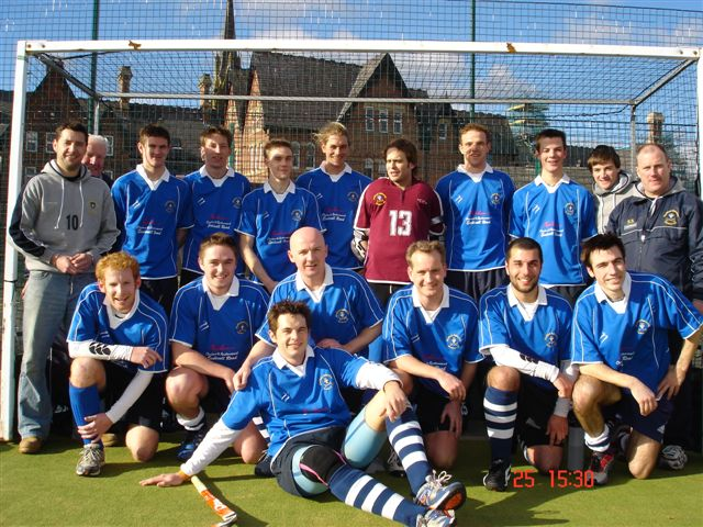 Sheffield University Banker's Hockey Club 1st team 05/06